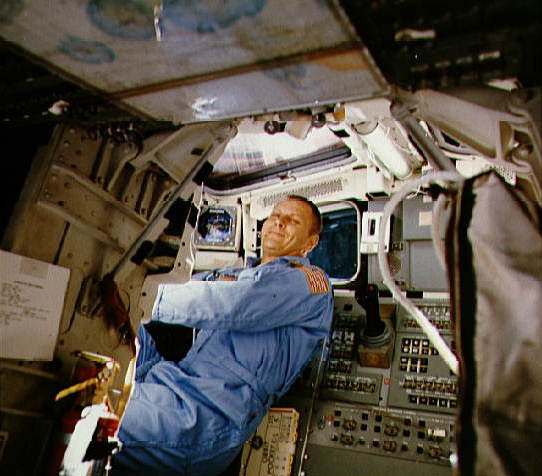 NASA Astronaut and STS-5 Pilot Robert F. Overmyer behind the pilot's seat on the flight deck of the Space Shuttle Columbia during the STS-5 mission in November 1982. NASA photo S82-39798 in public domain.